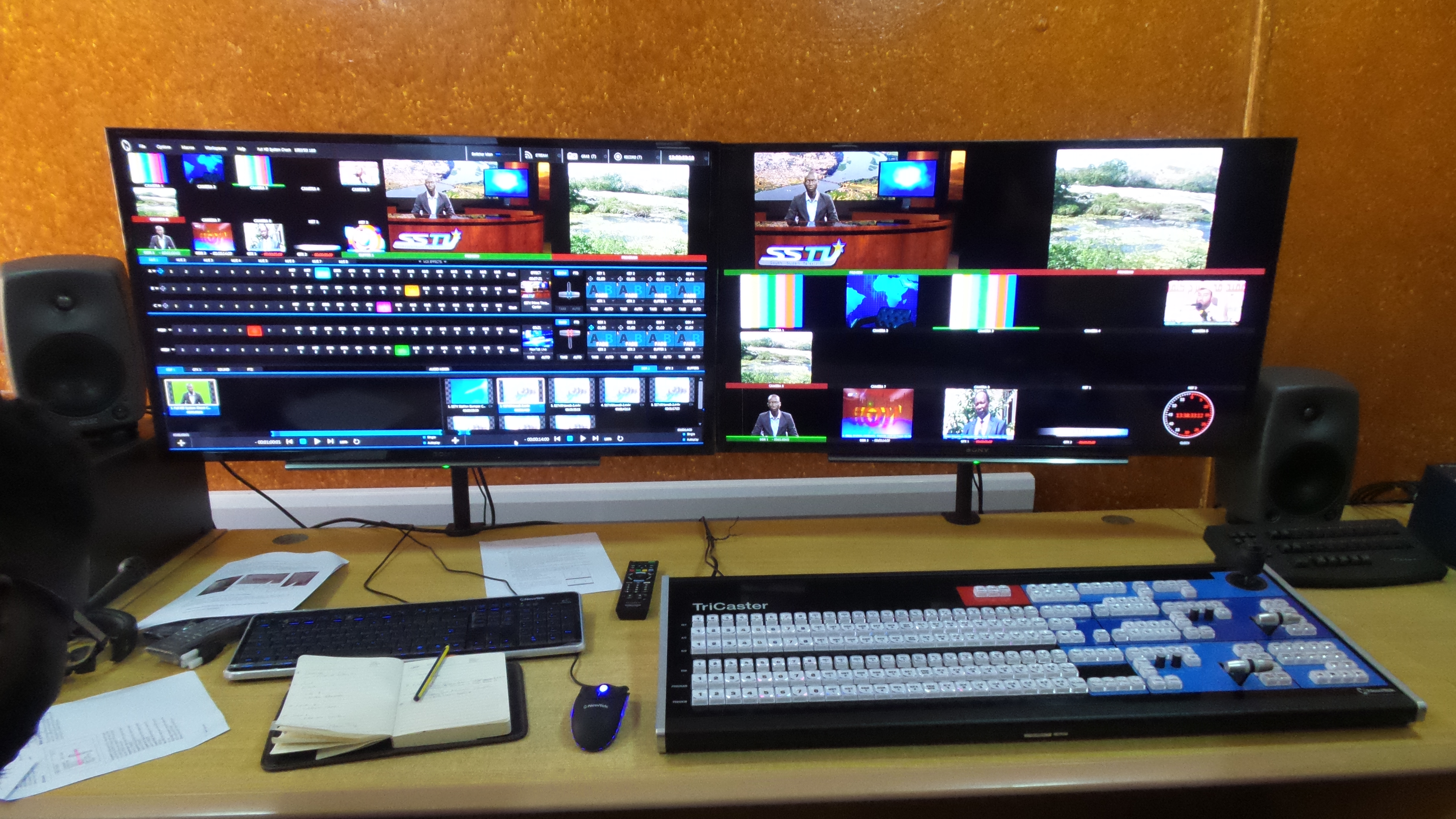 South Sudan Radio & Television in Juba, South Sudan, in February 2016